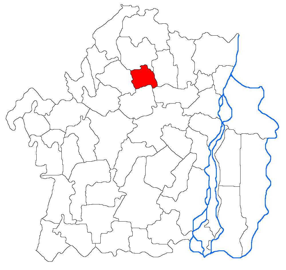 Limits of Commune of Gemenele in Braila County